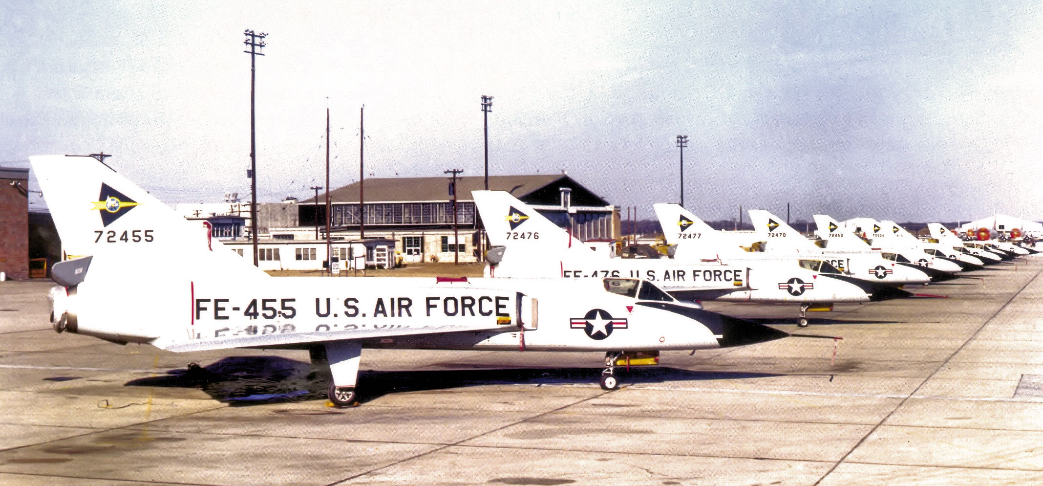 539th Fighter-Interceptor Squadron Convair F-106A-64-CO Delta Darts McGuire AFB, New Jersey October 1959 Shown 57-2455, 57-2476, 57-2477, 57-2470, 57-2459